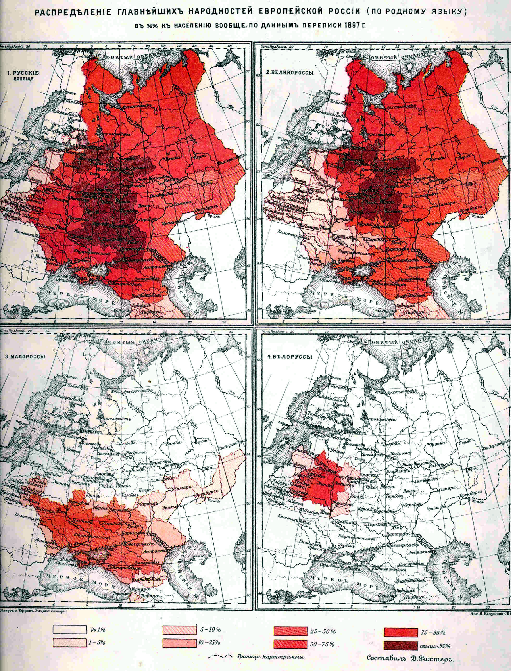 Illustration from Brockhaus and Efron Encyclopedic Dictionary (1890—1907)